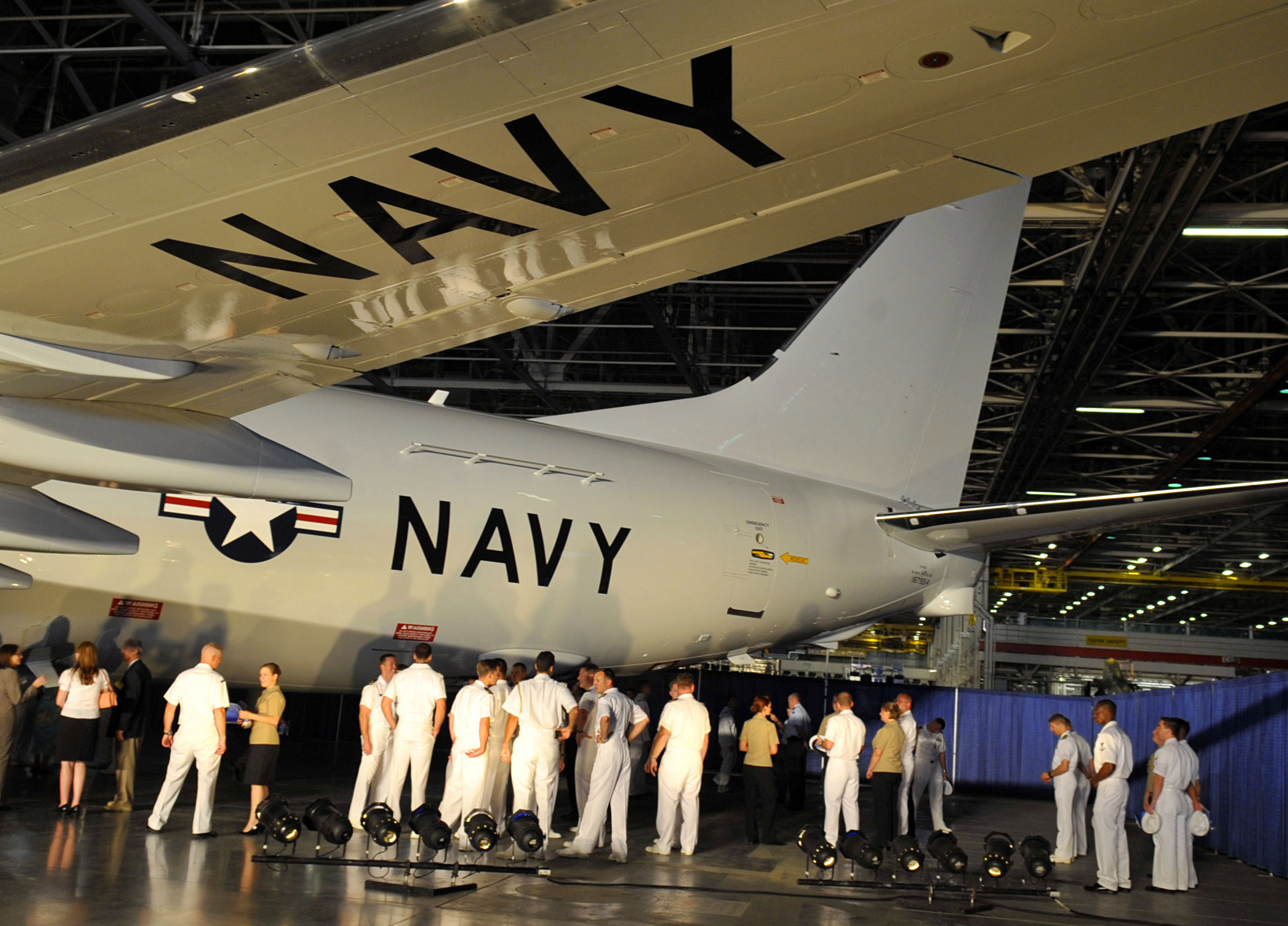 SEATTLE (July 30, 2009) Sailors get an up-close look at the Navy's newest aircraft, the P-8A Poseidon, during a rollout ceremony in Seattle. (U.S. Navy photo by Mass Communication Specialist 1st Class Tiffini Jones Vanderwyst/Released)